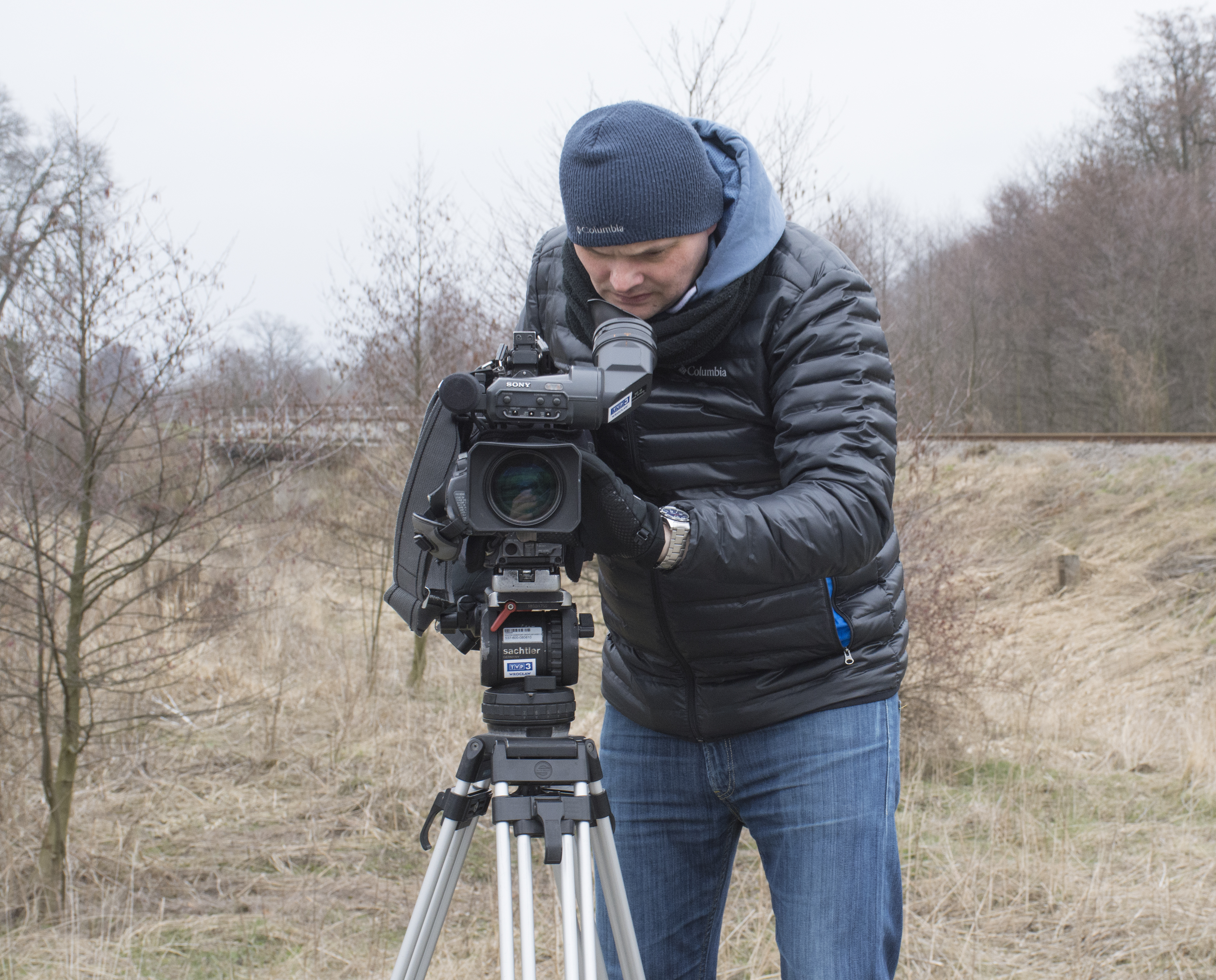 Wrocław Television cameraman at work